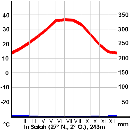 Climate diagram (in German) of Salah in Algeria created with